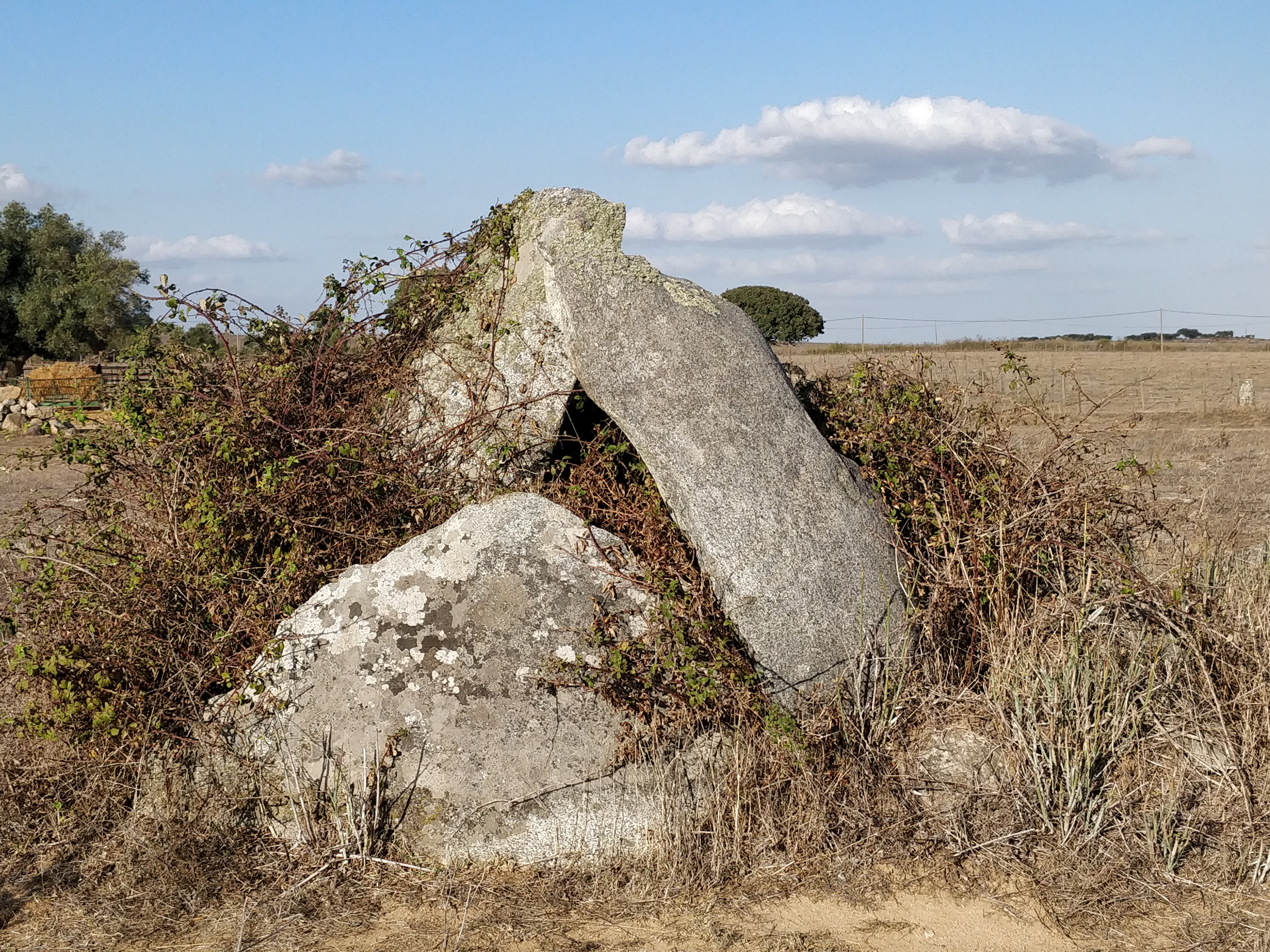 The Anta da Valeira 2 is one of two megalithic burial chambers or dolmens situated in a field at Valeira in the Evora District of Portugal